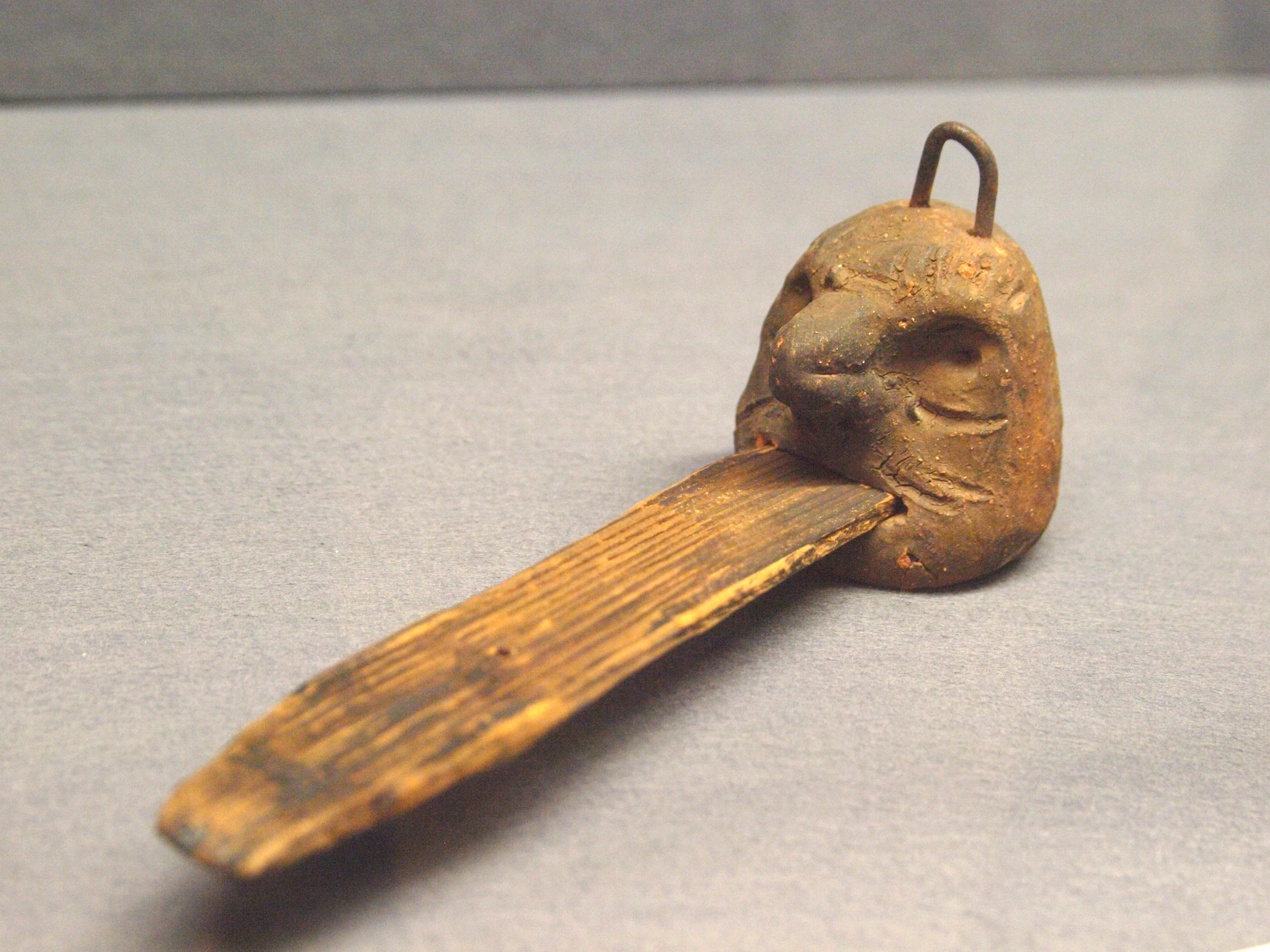 Fatwood holder made of burned clay with an iron holder and inserted fatwood stump. Lower Rhine area 18th or 19th century. Kölnisches Stadtmuseum, Cologne, Germany.